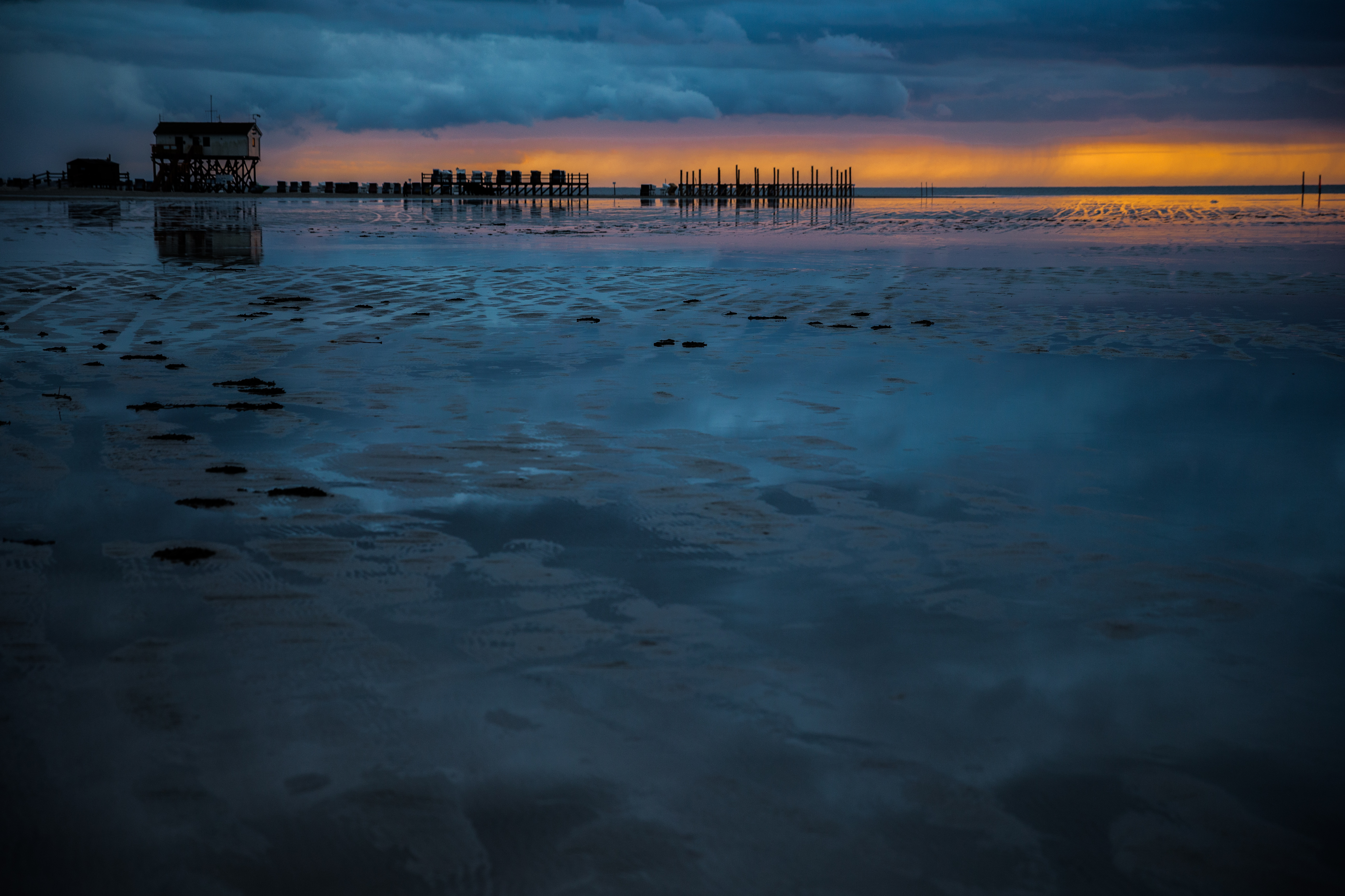 Sunset at the beach of St. Peter-Ording